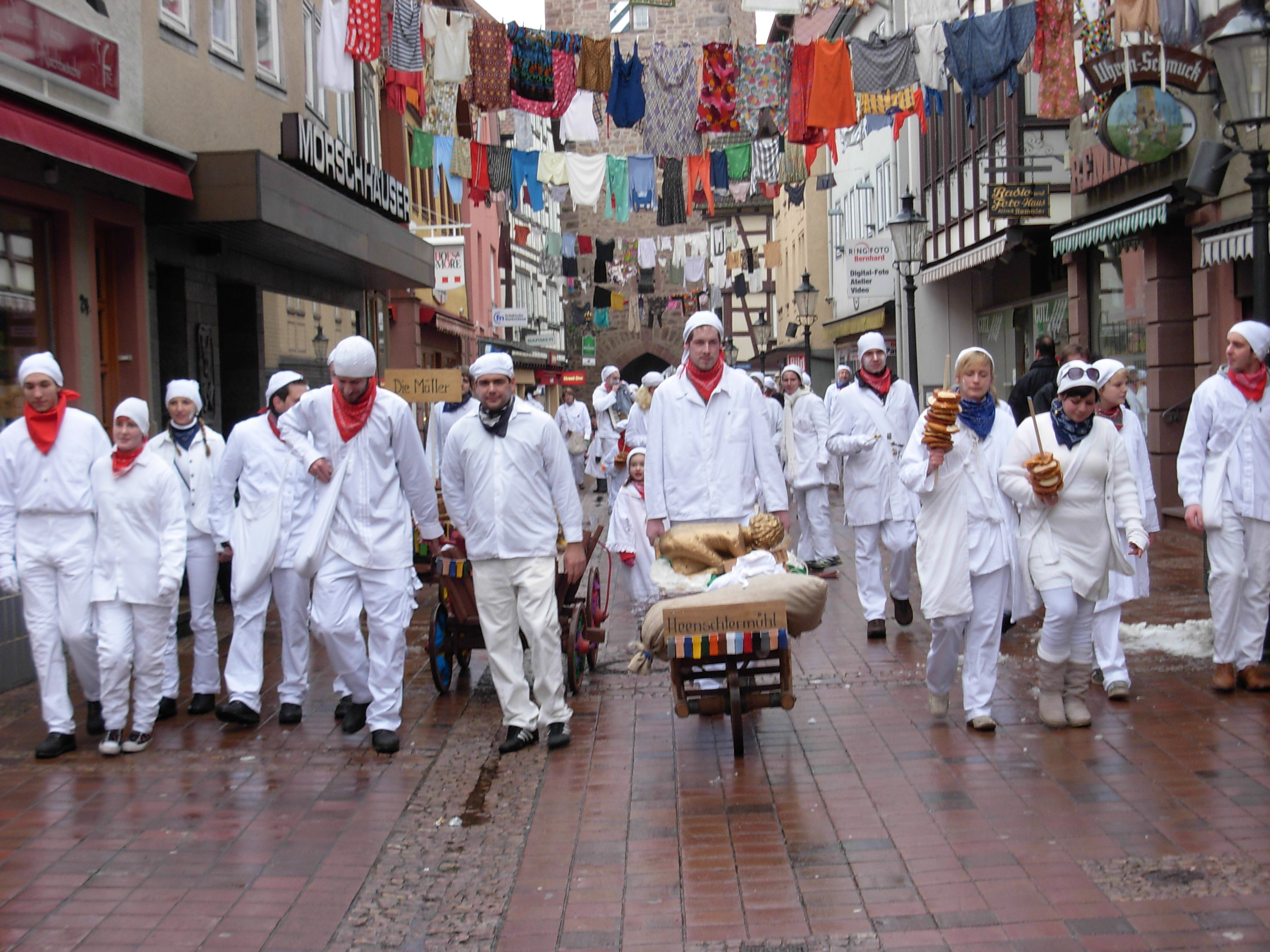 "The millers", carnival in Buchen (Odenwald), Germany